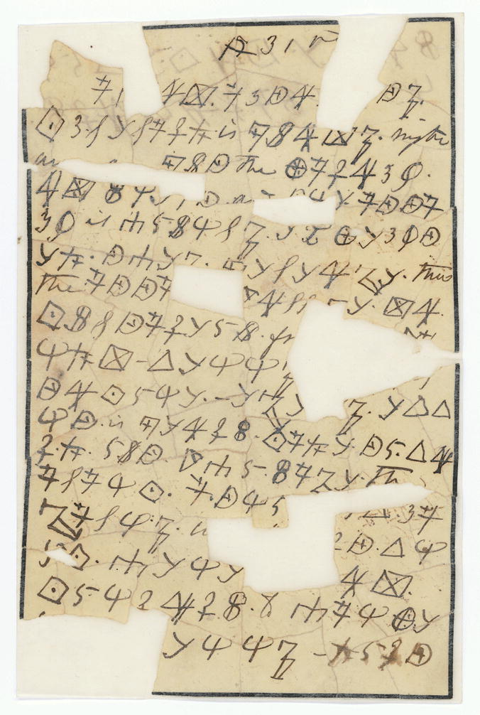 Cipher made by Rose O'Neal Greenhow, spy in Washington, D.C., working for the Confederacy during the American Civil War. Image from World Digital Library, held in the National Archives: ARC Identifier 1634036 / MLR Number A1 986